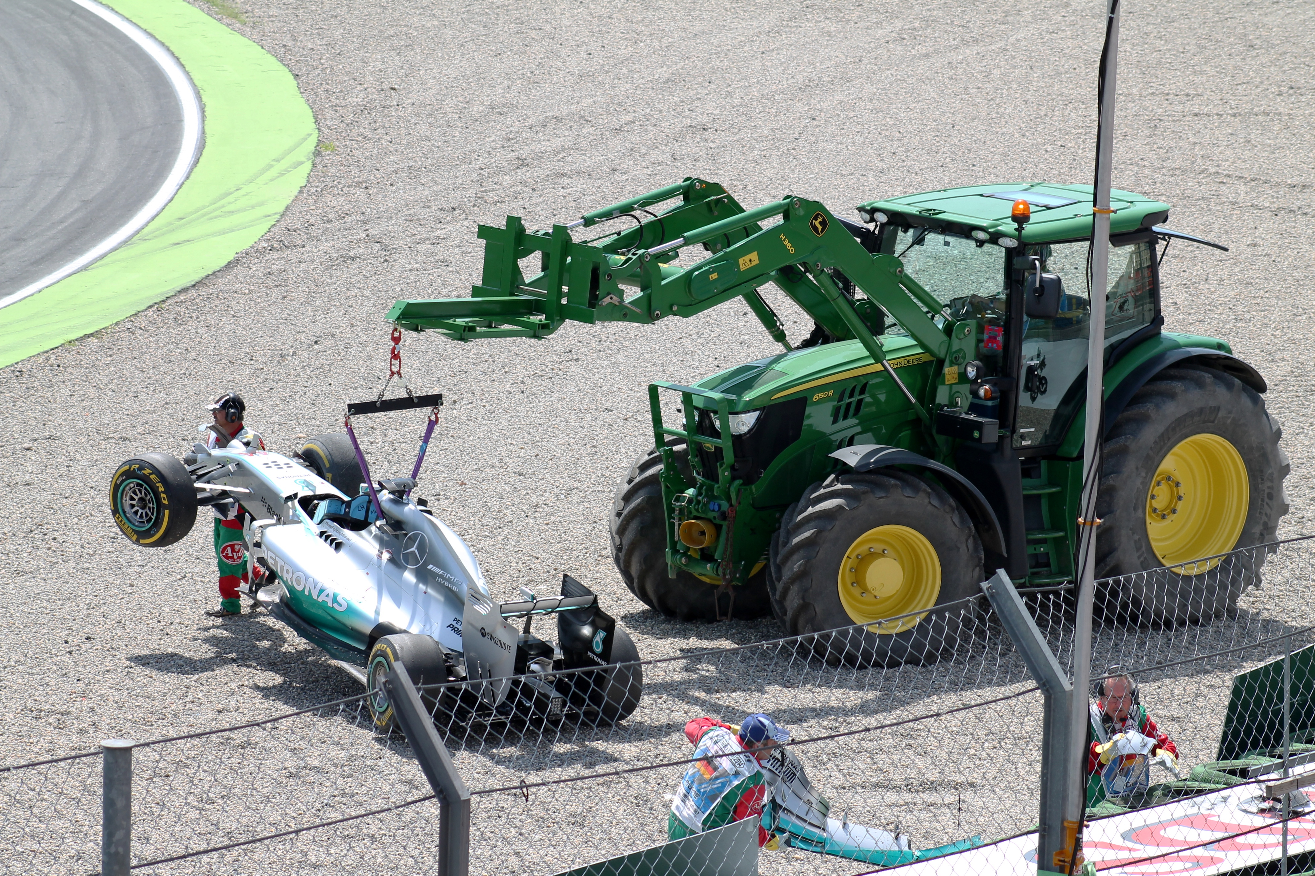 Braking for the left-handed Sachs corner in the first qualifying session of the 2014 German GP, Lewis Hamilton was sent off the circuit and into the tyre wall after a brake disc failure. The crash that left Hamilton sore yet uninjured forced him to start the race from the 15th place.